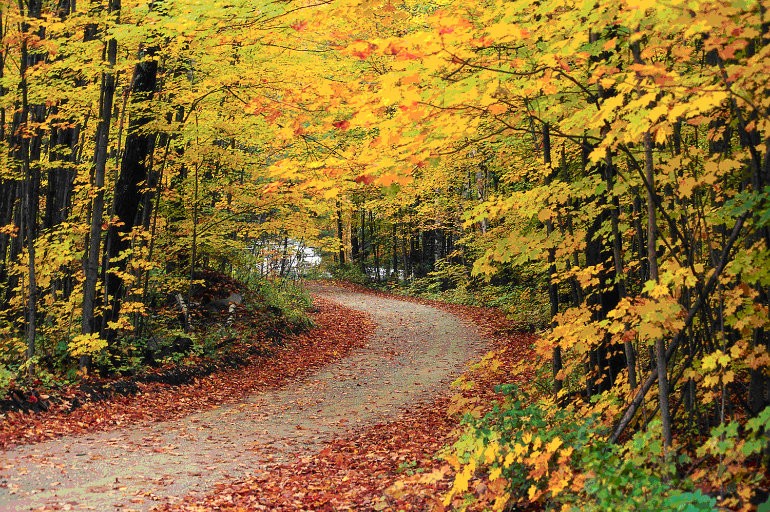 The Hapgood Pond Recreation Area of the Green Mountain National Forest displays its fall foliage splendor.